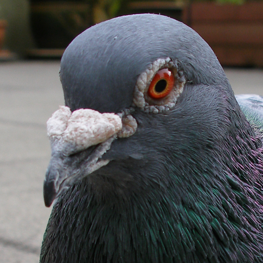 One wonders what purposes the scaling serves...